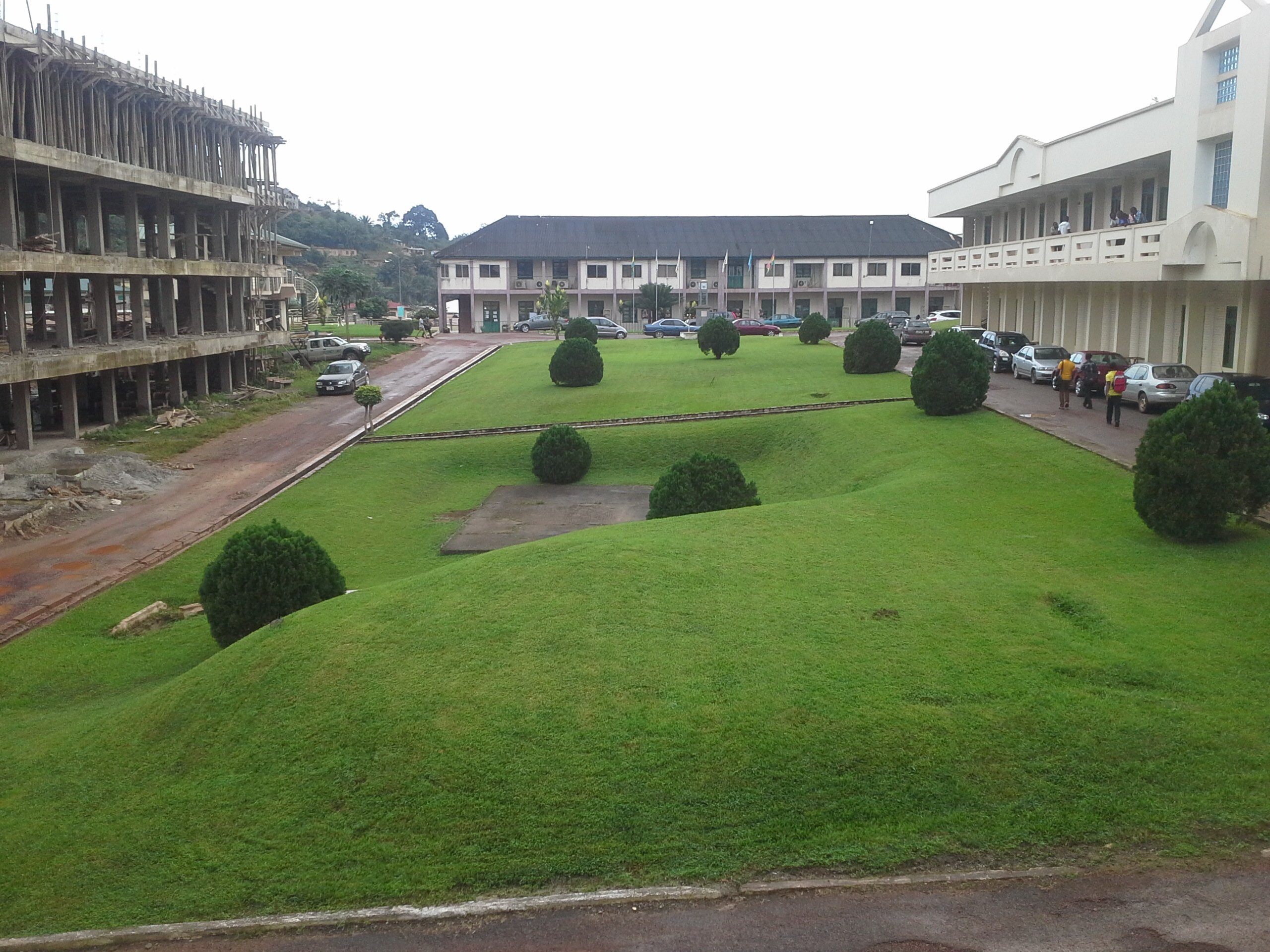 University of Mines and Technology (UMaT) administration block